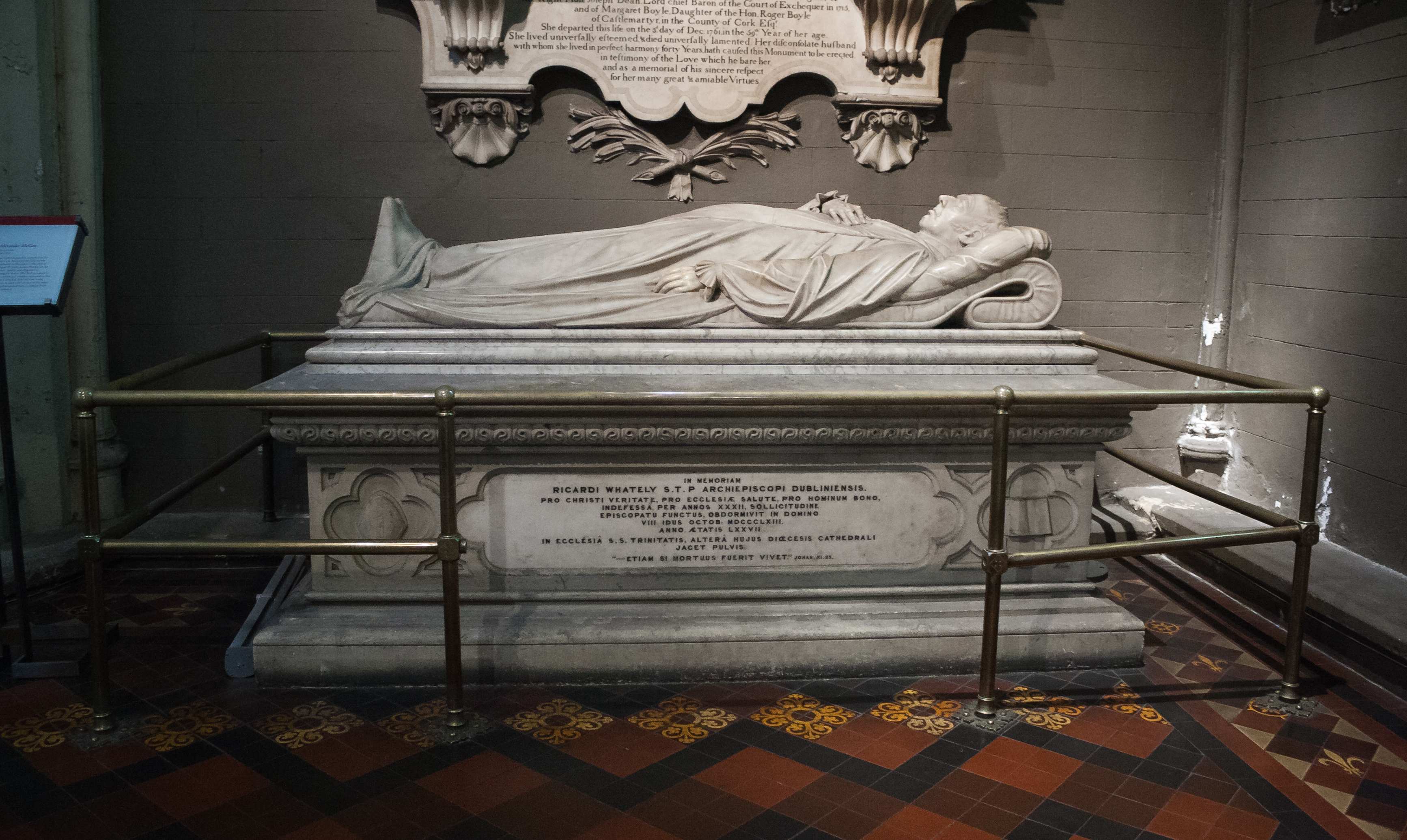 Monument in the west aisle of the south transept dedicated to Richard Whately, Archbishop of Dublin. Sculpted by Sir Thomas Farrell (1827–1900) in Dublin.